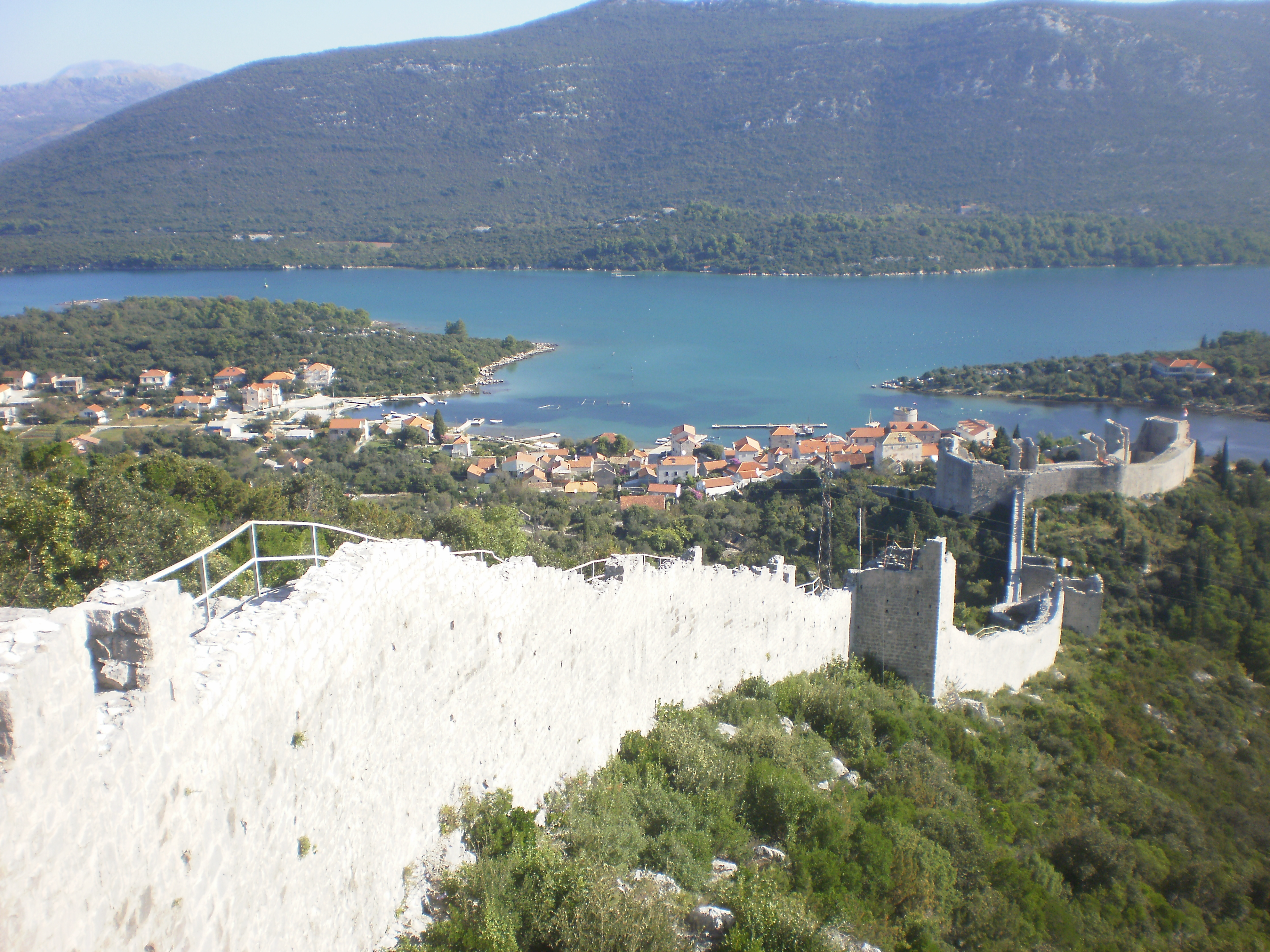 Mali Ston Mali Ston bay as seen from the walls OLYMPUS DIGITAL CAMERA